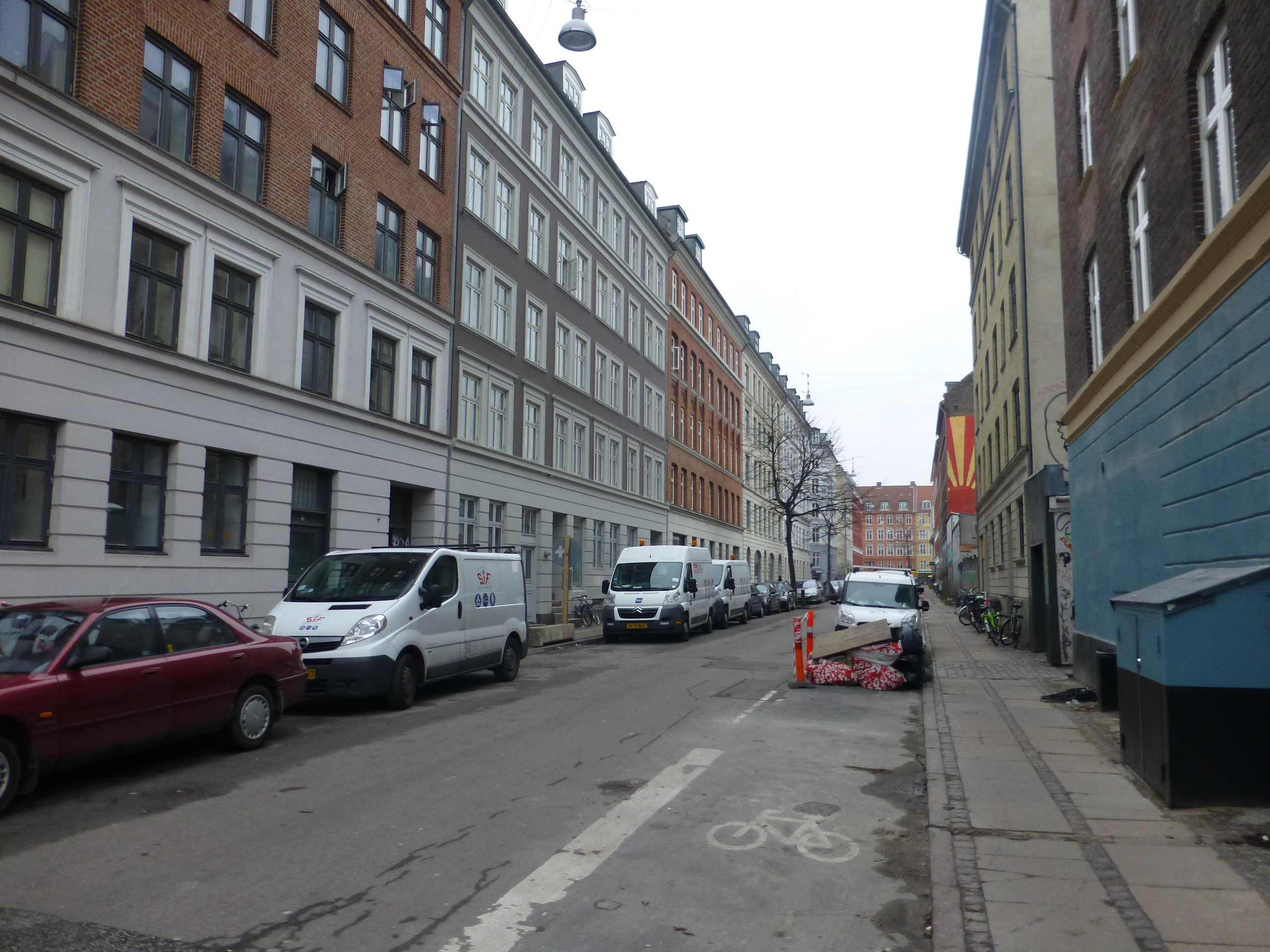 The street Sundevedgade in Vesterbro in Copenhagen.